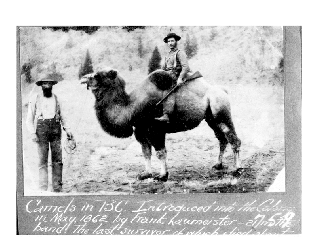 Photo taken 189? Photographer: Unknown Source #A-00347 [1]